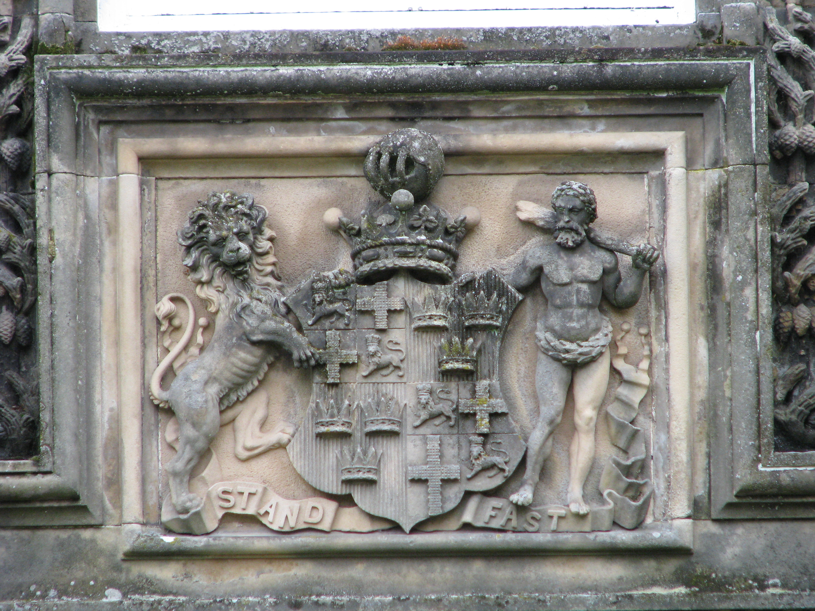 Photograph of the Arms of the Earl of Seafield, depicted on the west wing of Cullen House